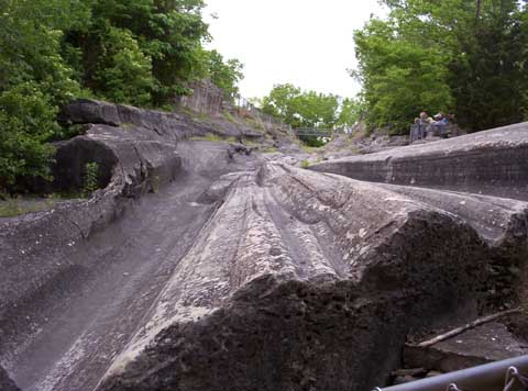 Glacial grooves caused by erosion of limestone bedrock by Wisconsin glaciation at Kelleys Island